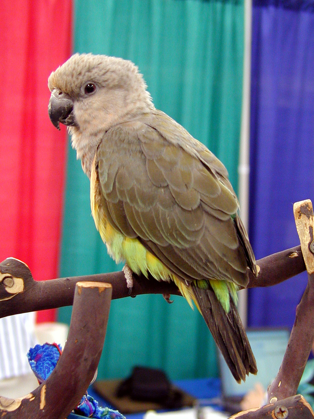 Red-bellied Parrot; a juvenile male pet parrot on a wooden perch. Shows back.